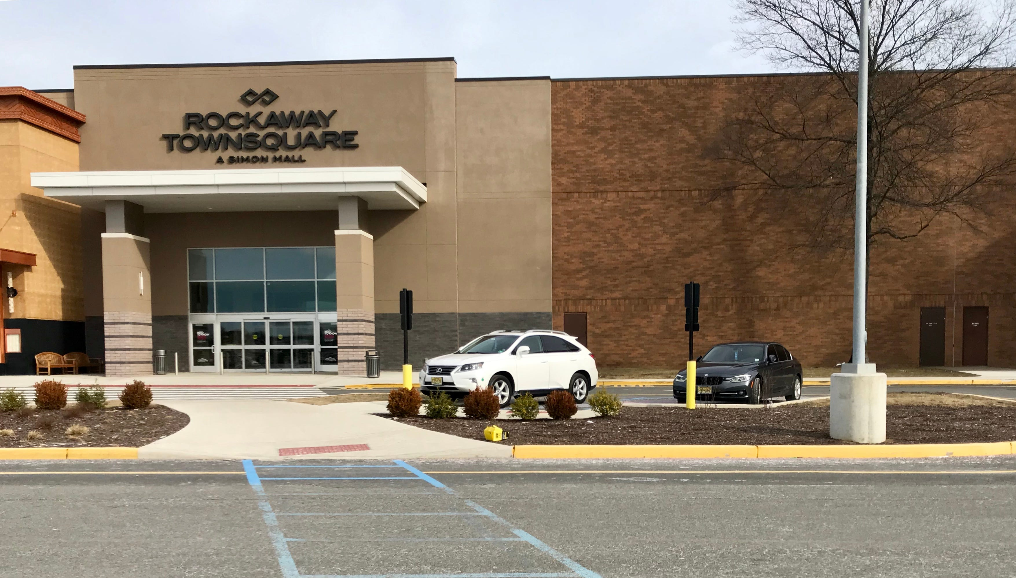 Mall Entrance